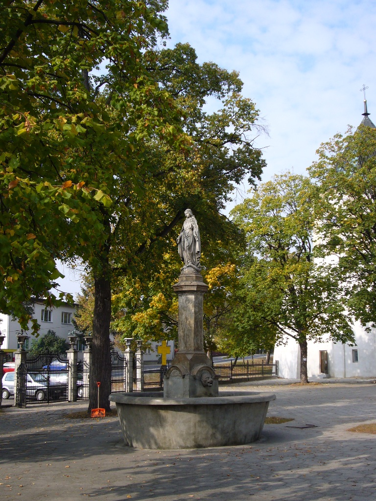 The fountain in the monastery yard - Lezajsk (Poland)